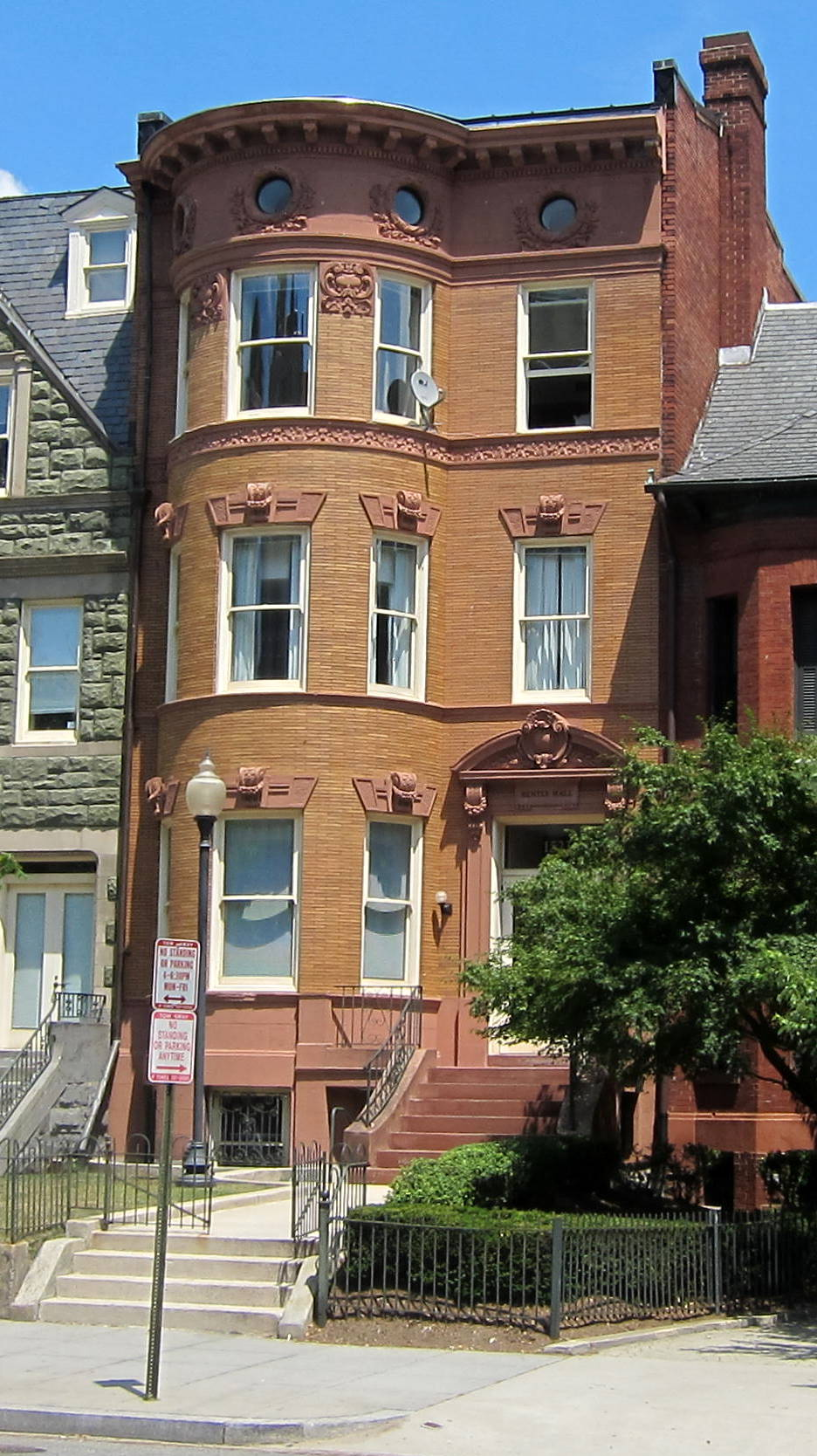 Headquarters of Fig Leaf Software located at 1523 16th Street, N.W., in the Dupont Circle neighborhood of Washington, D.C. Built as a private residence in 1916, the Beaux-Arts style building is designated as a contributing property to the Sixteenth Street Historic District, listed on the National Register of Historic Places in 1978. Former occupants include Citizens for a Sound Economy, the Nicaraguan embassy, William H. Morris, Jr., Brigadier General Palmer E. Pierce, and Emiliano Chamorro Vargas.